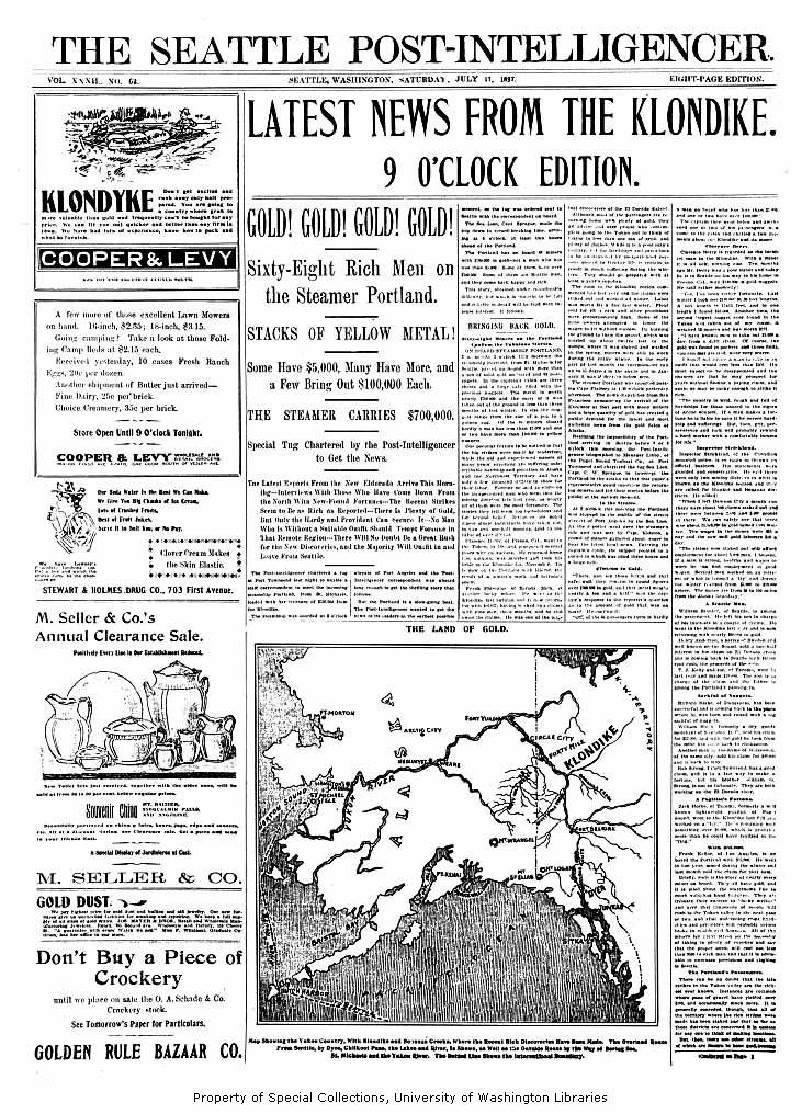 Seattle Post Intelligencer newspaper front page for July 17, 1897, announcing the arrival of the steamer Portland in Seattle from the Klondike gold fields